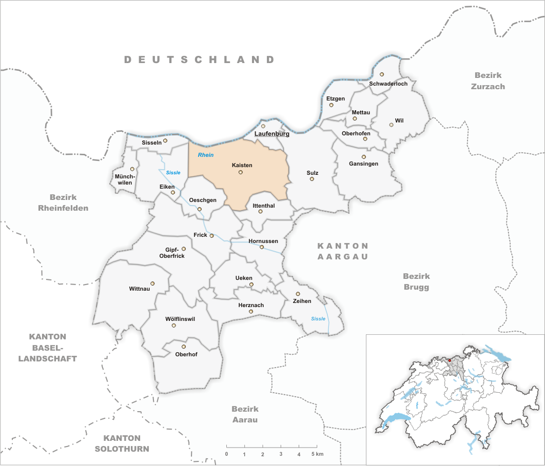 Municipality Kaisten